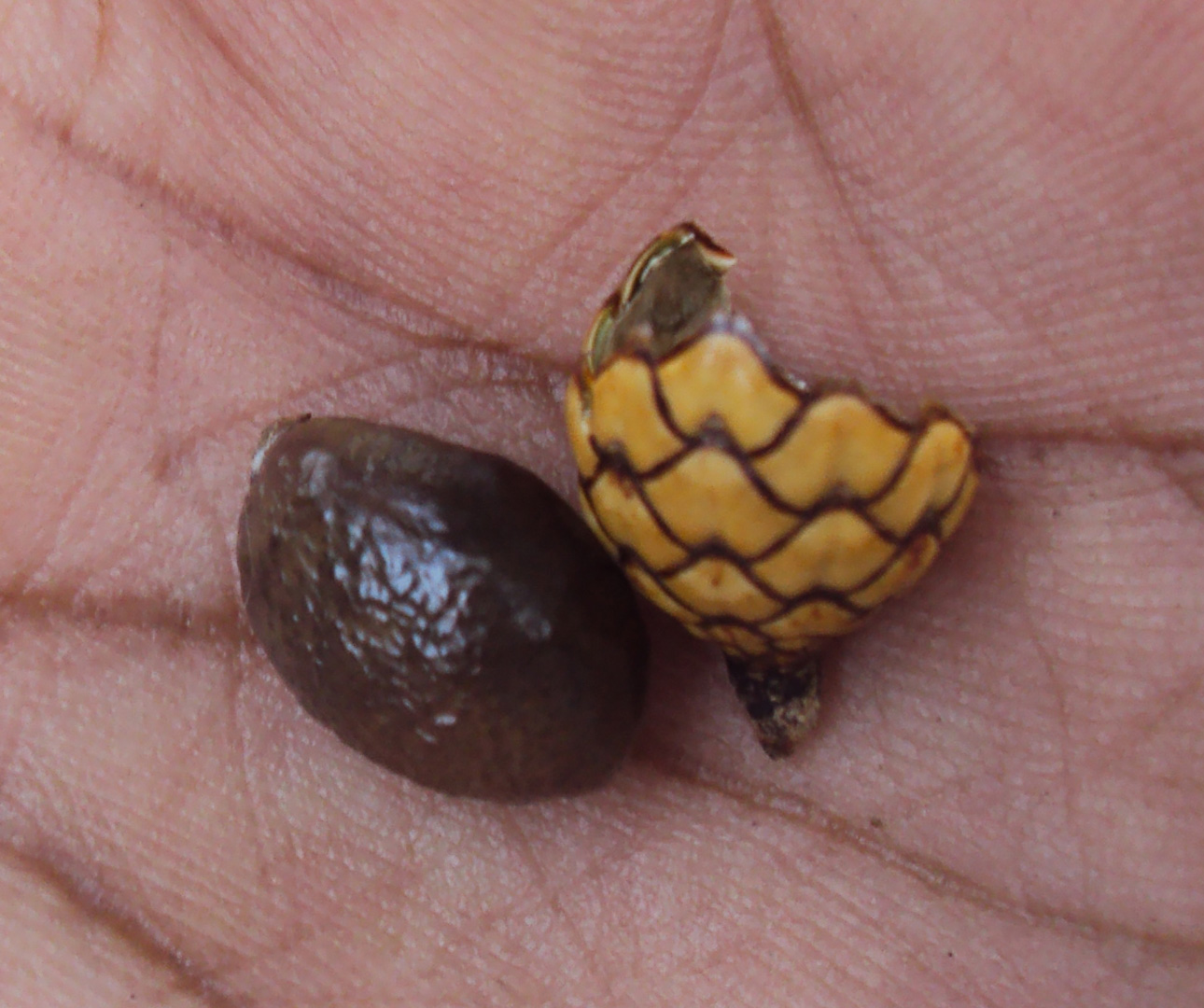 Calamus rotang